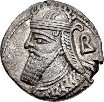 Tetradrachm of Vologases IV, minted at Seleucia in 153.